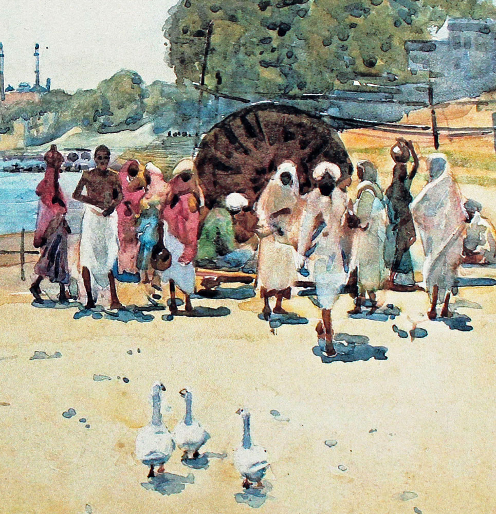 reproduction of water-colour painting of India (detail)